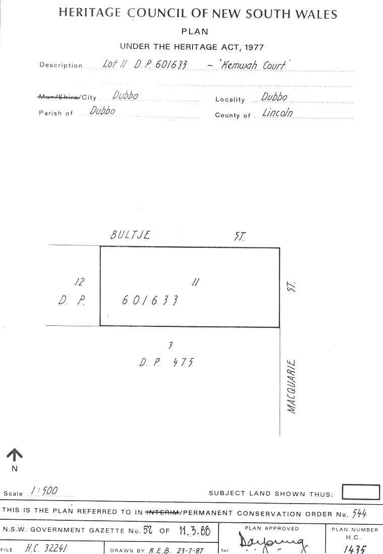 Milestone Hotel, Dubbo: PCO Plan Number 544